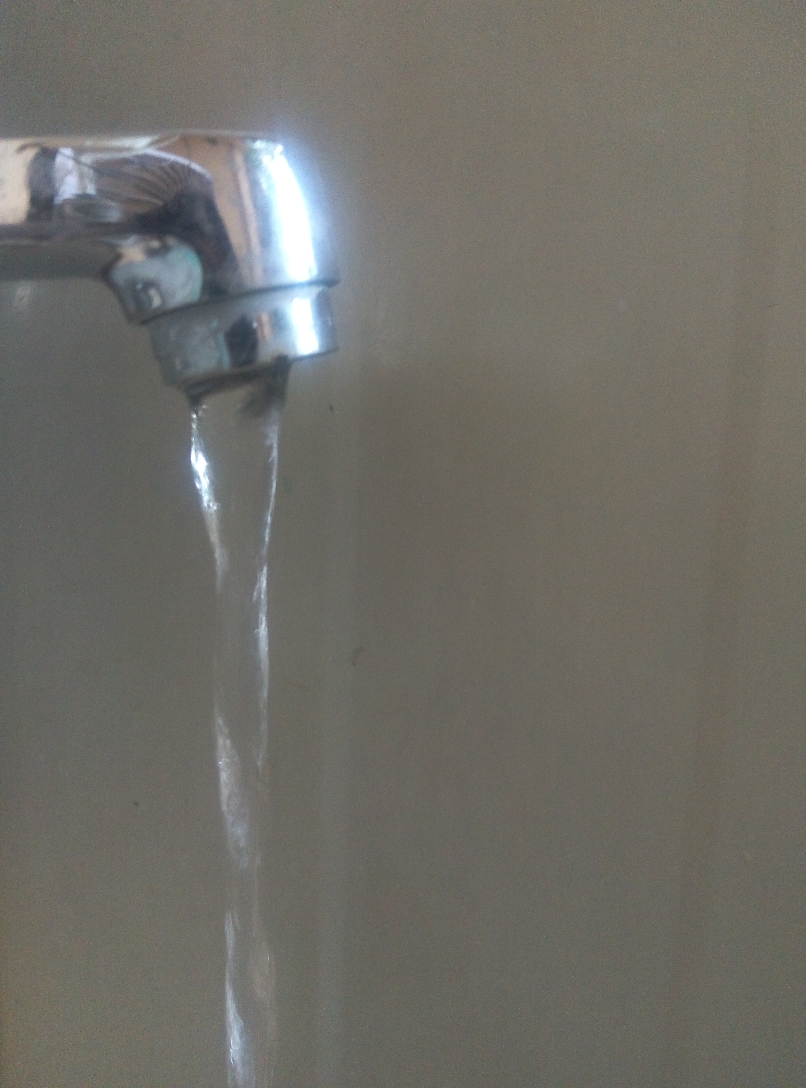 this is a picture perfect